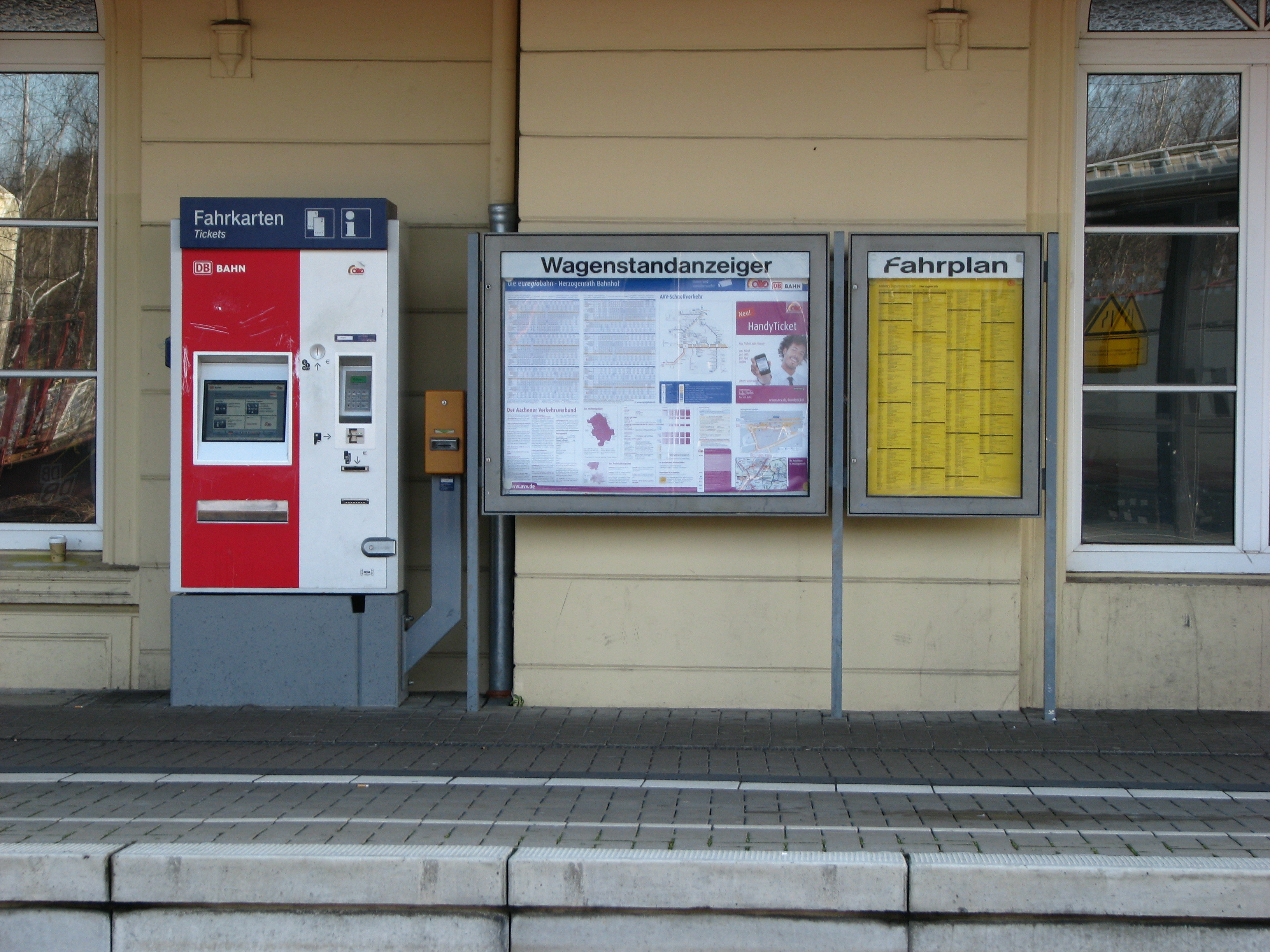 Herzogenrath station, ticket machine and timetable.